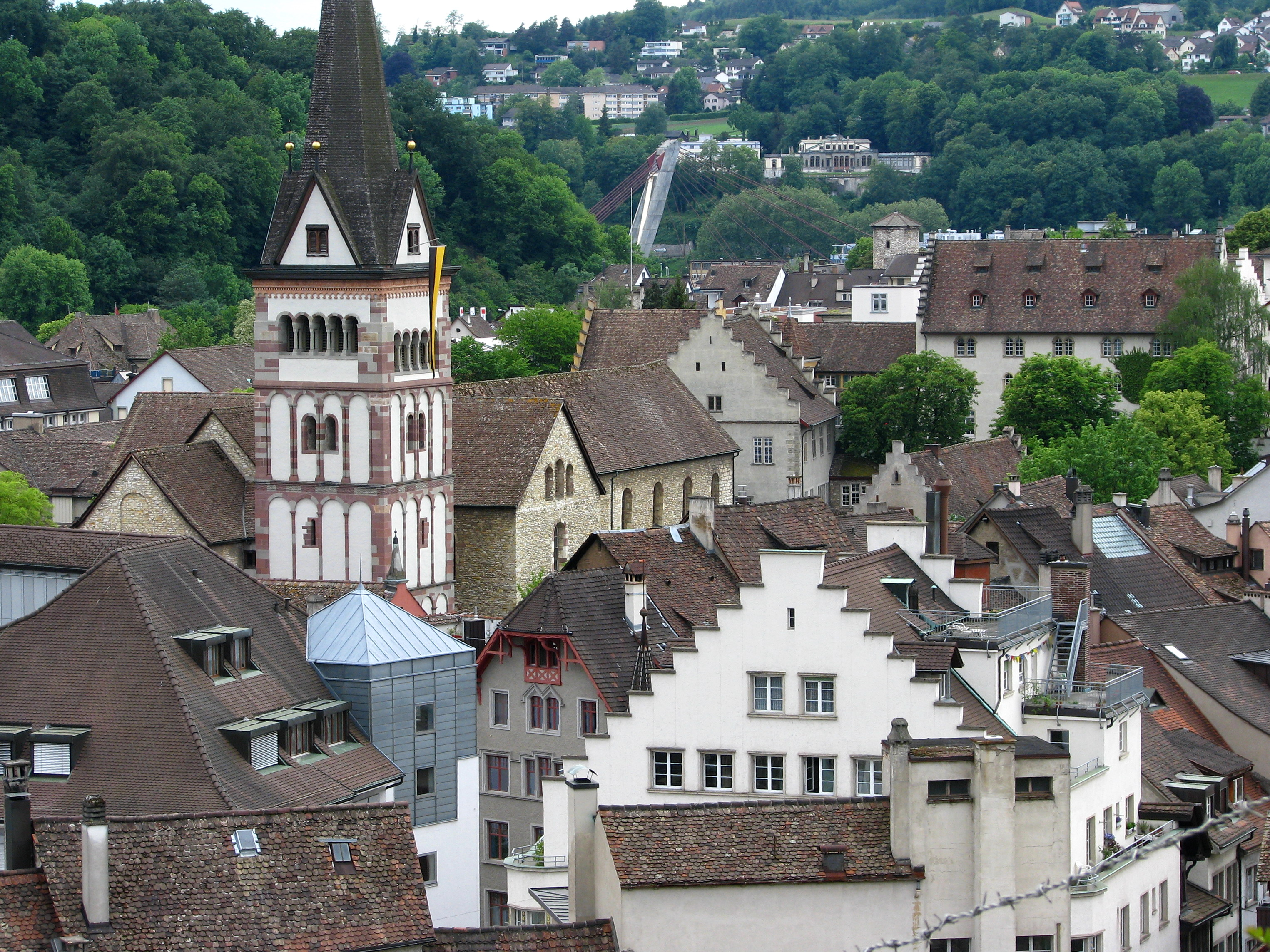 Schaffhausen (Switzerland), Münster church in the middle, as seen to the west from Munot